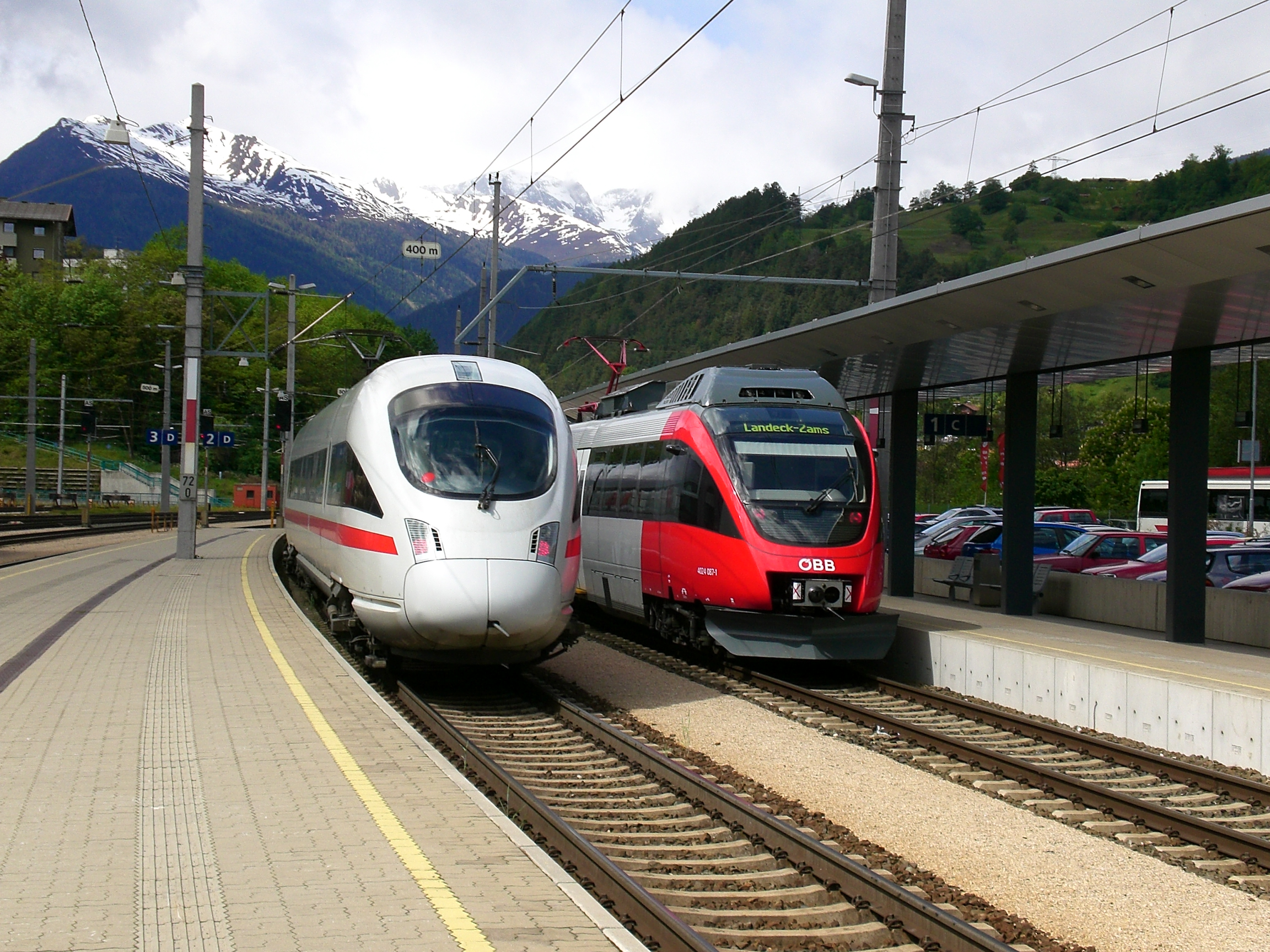 ÖBB 4011 591-1 as ICE 562 while departing from Landeck-Zams, Austria (westbound). On the right EMU 4024 087-1 is waiting.